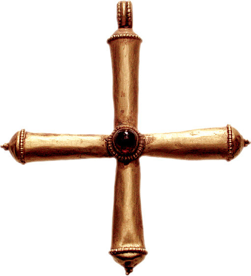 BYZANTINE. Early. Gold Cross Pendant. 7th-9th century. Gold hollow-form Greek cross, each tube ending in dome-shaped cap decorated at base with beed-and-reel rouletting; three of the ends surmounted by four pellets arranged pyramidally, the four by the suspension loop; at center, a garnet cabachon set in ornate bezel. Choice condition, rich gold tone, one bar slightly crimped from behind.